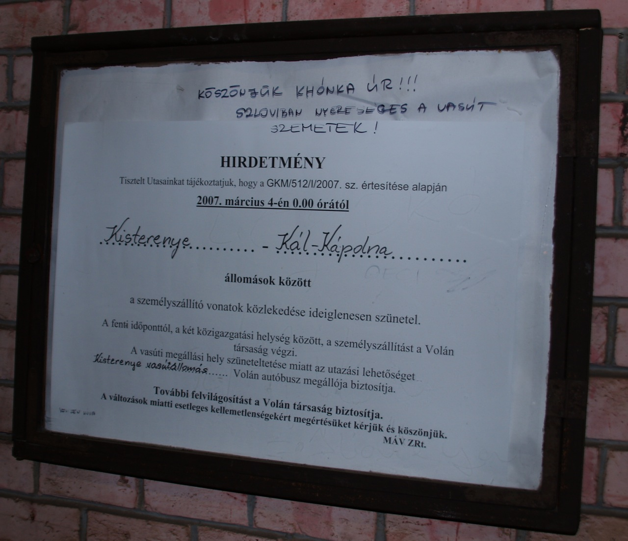 Official statement on the closure of the Kisterenye–Kál-Kápolna railway line in HungaryDear Passengers! The railway traffic between Kisterenye and Kál-Kápolna after 2007-03-04 00:00 will be temporarily disolved.(...) Passenger's comment: Thank You Mr. Kóka (minister of transport; 2007)! The Slovakian railway is profitable, bastards!